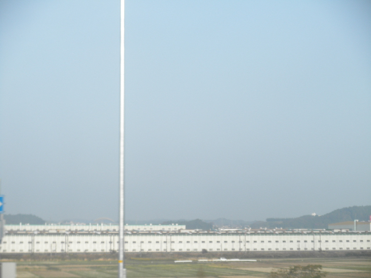 JR East Shinkansen General Rolling Stock Center